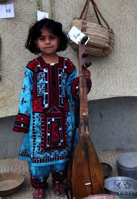 Child in traditional Baloch dress, Balochistan, Pakistan.